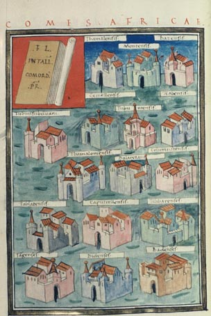 Comes Africae from Notitia dignitatum, Castellum: Thamalensis, Montensis, Bazensis, Gemellensis, Tubuniensis, Zabensis, Tubusubditani, Thamallomensis, Balaretani, Columnatensis, Tablatensis, Caputcellensis, Tillibarenses, Tangenses, Bidenses, Badenses